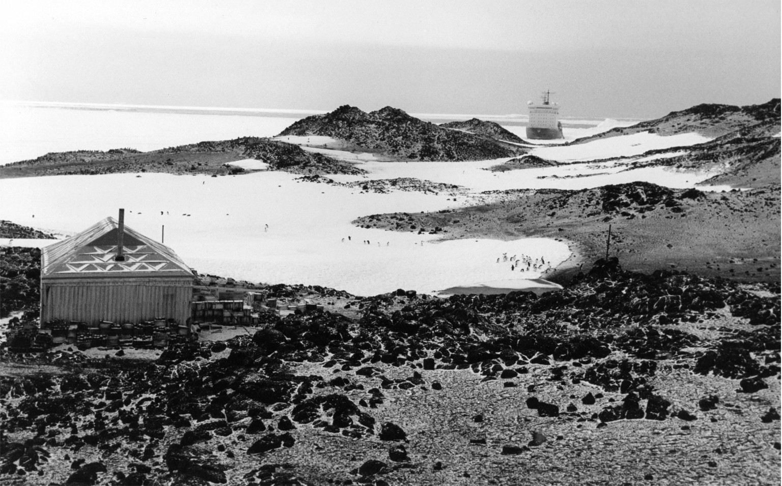 The Historic Huts - Cape Royds. You could see the hut, which was built by Sir Ernest Shackleton during Nimrod Expedition in Antarctica. You also could see penguins and our icebreaker The picture is a scan of an old film picture. The picture was taken by Brocken Inaglory